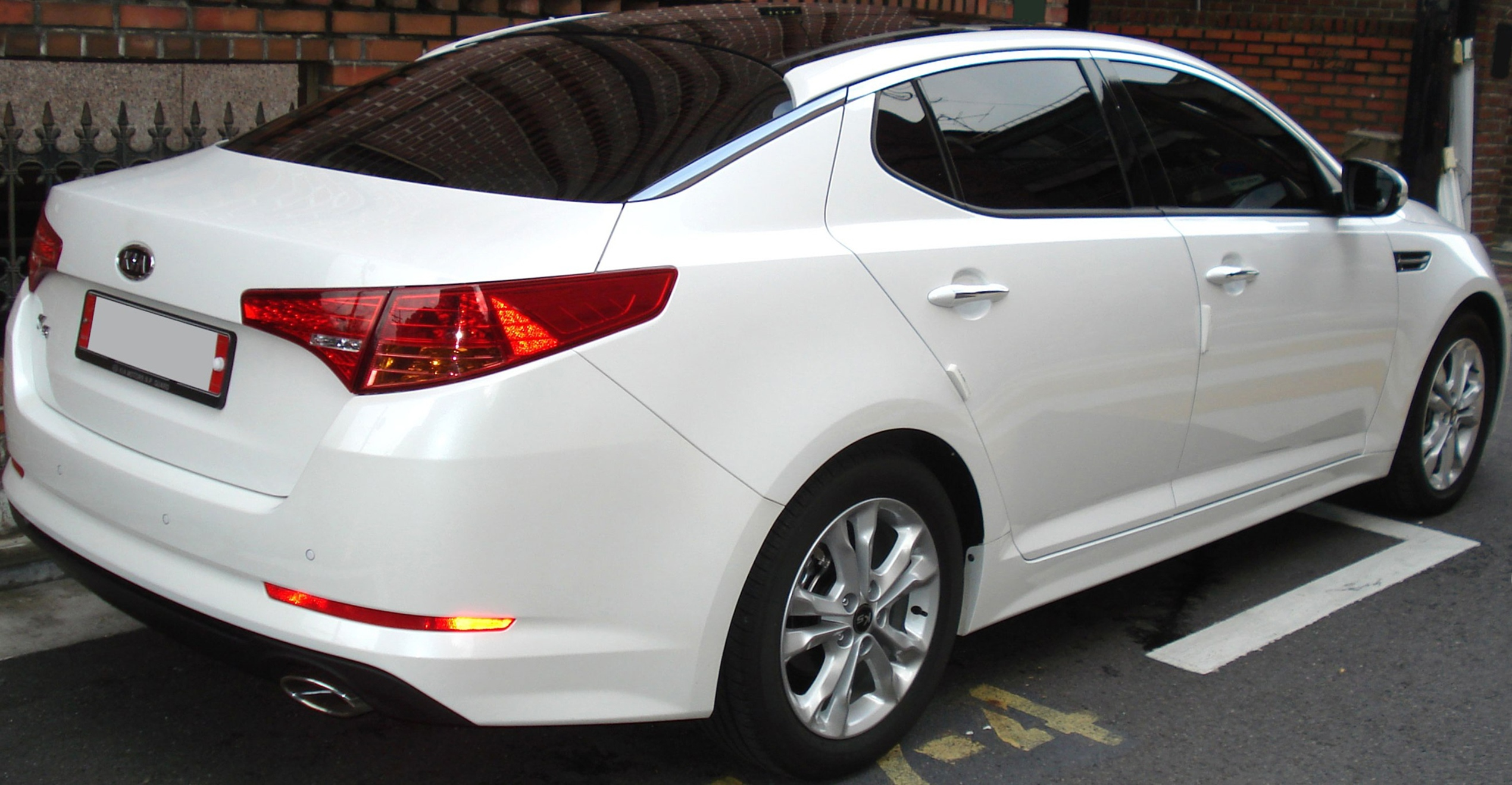 Kia K5